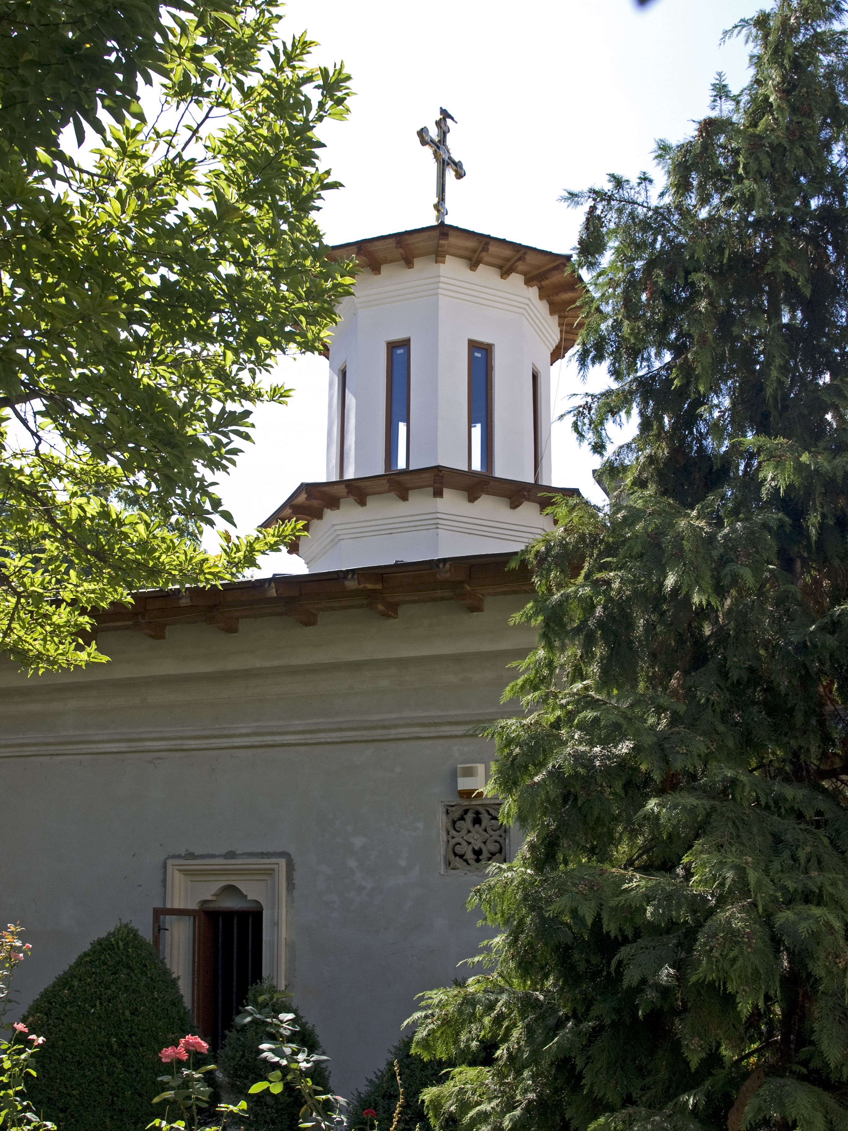 Dormition Church, Str. Sapienței 5, Bucharest